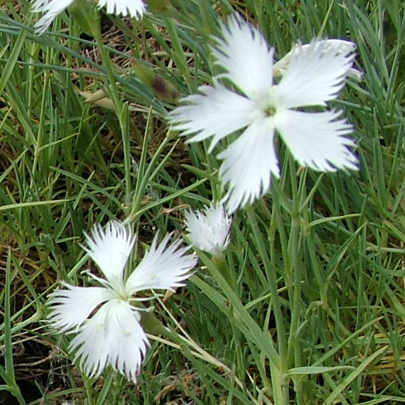 Detail view of the flowers of Dianthus plumarius L. in the botanical garden of Rostock.